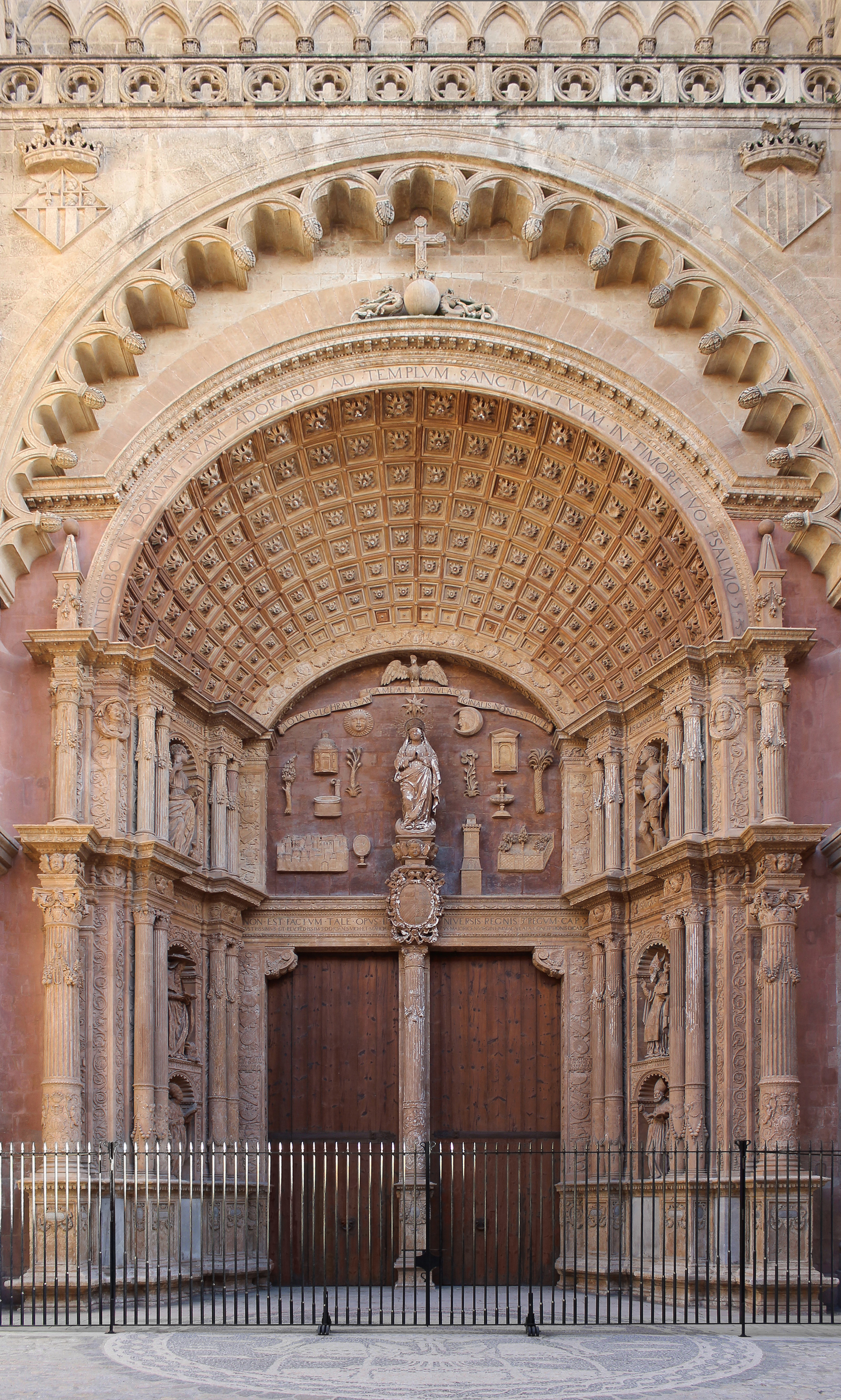 Portal of the Cathedral in Palma de Mallorca